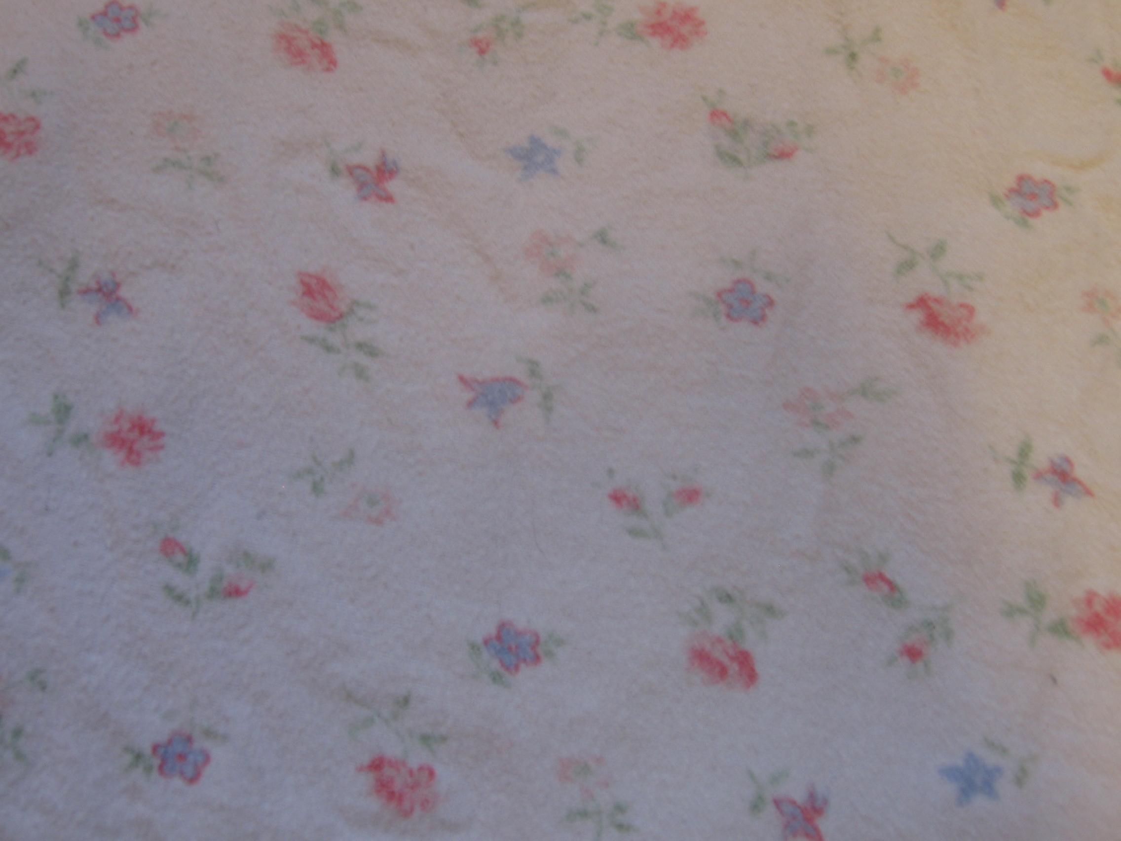 A piece of flannel cloth.